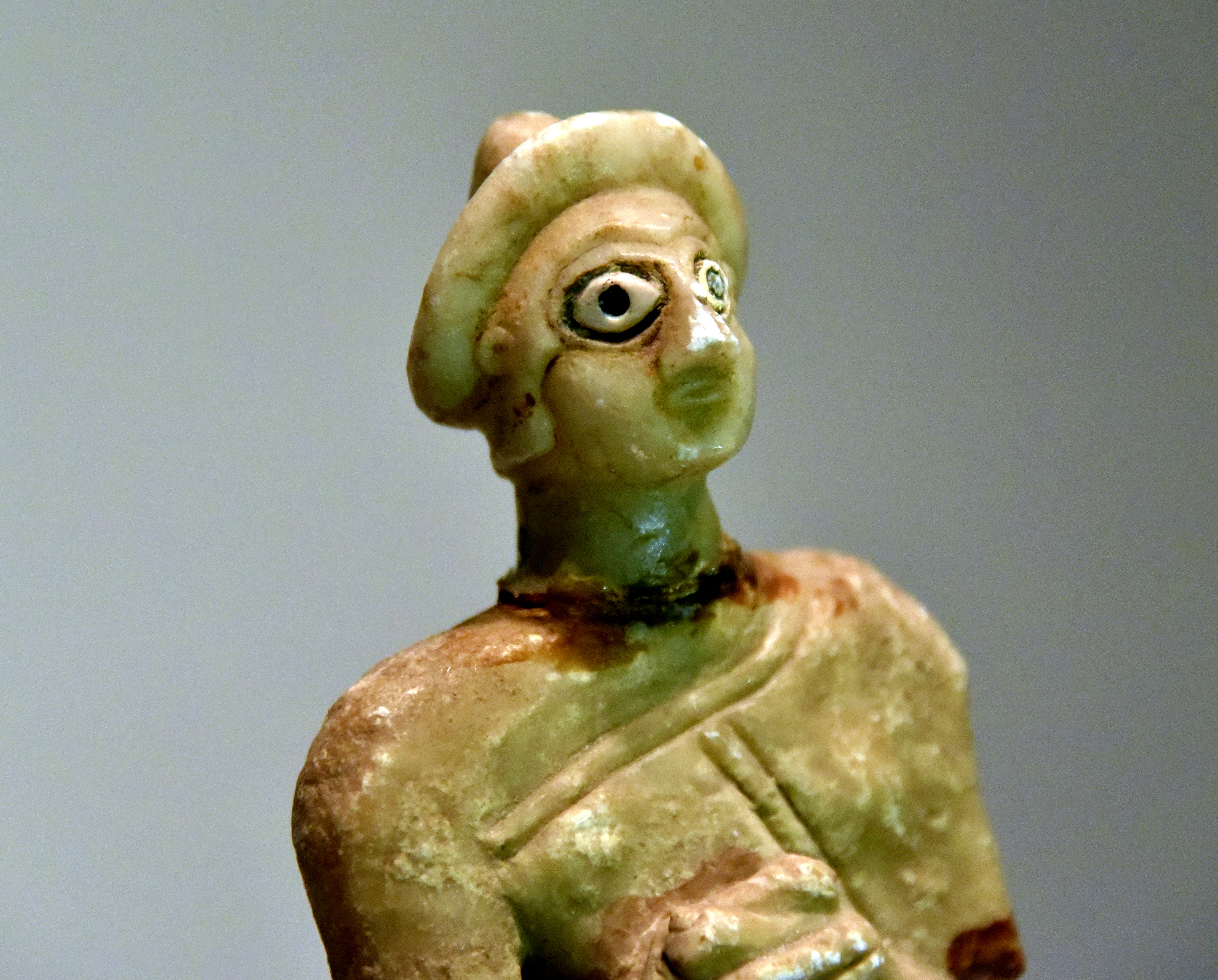 This alabaster /limestone head of a Sumerian woman came from Khafajah, in modern-day Dyala, Iraq, and was excavated by the Oriental Institute of the University of Chicago, 4th season, 19331934 CE, Early Dynastic III, c. 2400 BCE. The head does not belong to the torso of the statue. The Sulaymaniyah Museum, Iraqi Kurdistan. The head is on the list of Oriental Institute's Lost Treasures from Iraq after April 2003. However, it has been housed at the Sulaymaniyah Museum since October 1961, as a permanent loan from the Iraqi Museum.